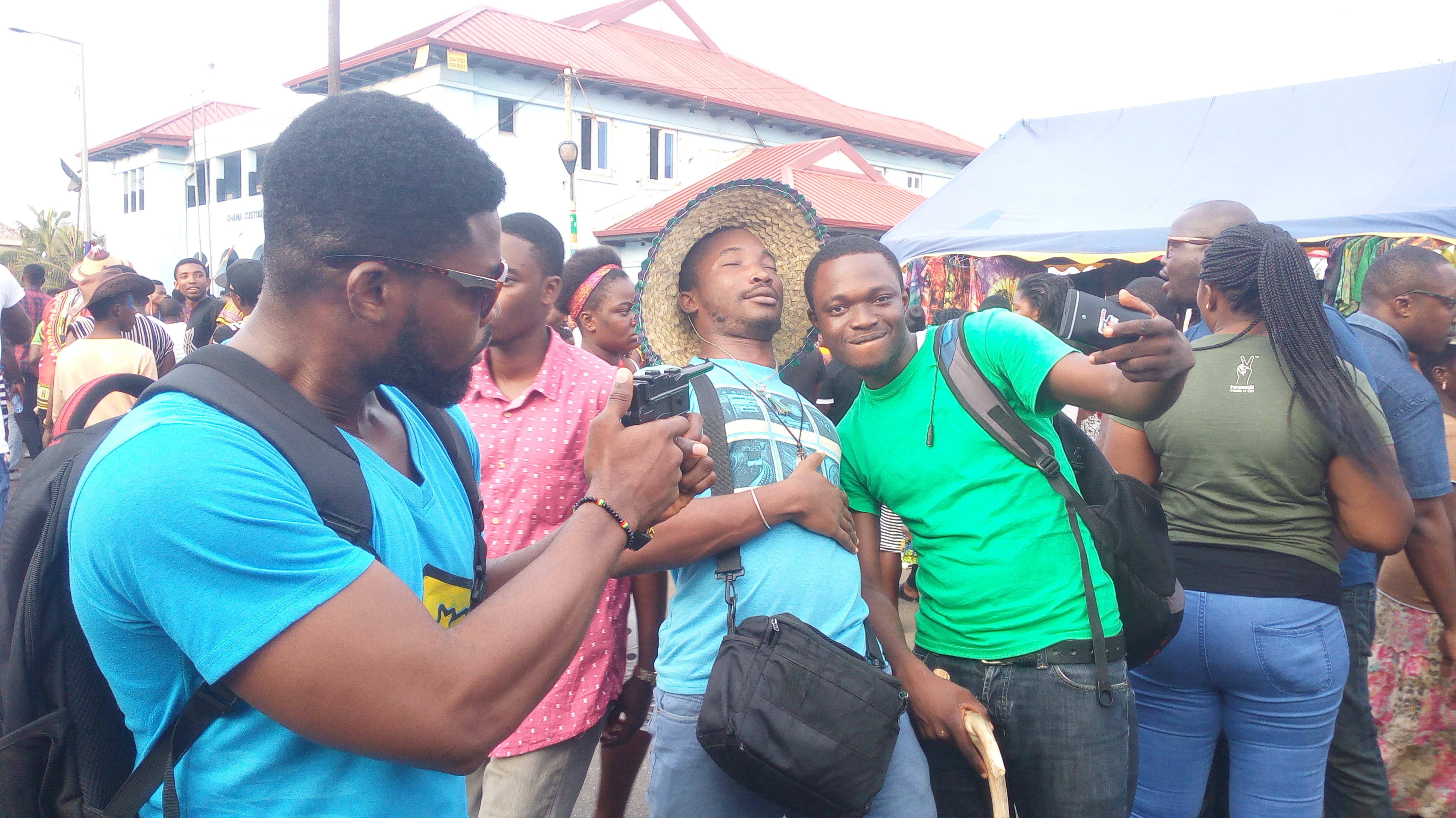 People taking pictures and having fun at Chalewote Festival in Ghana